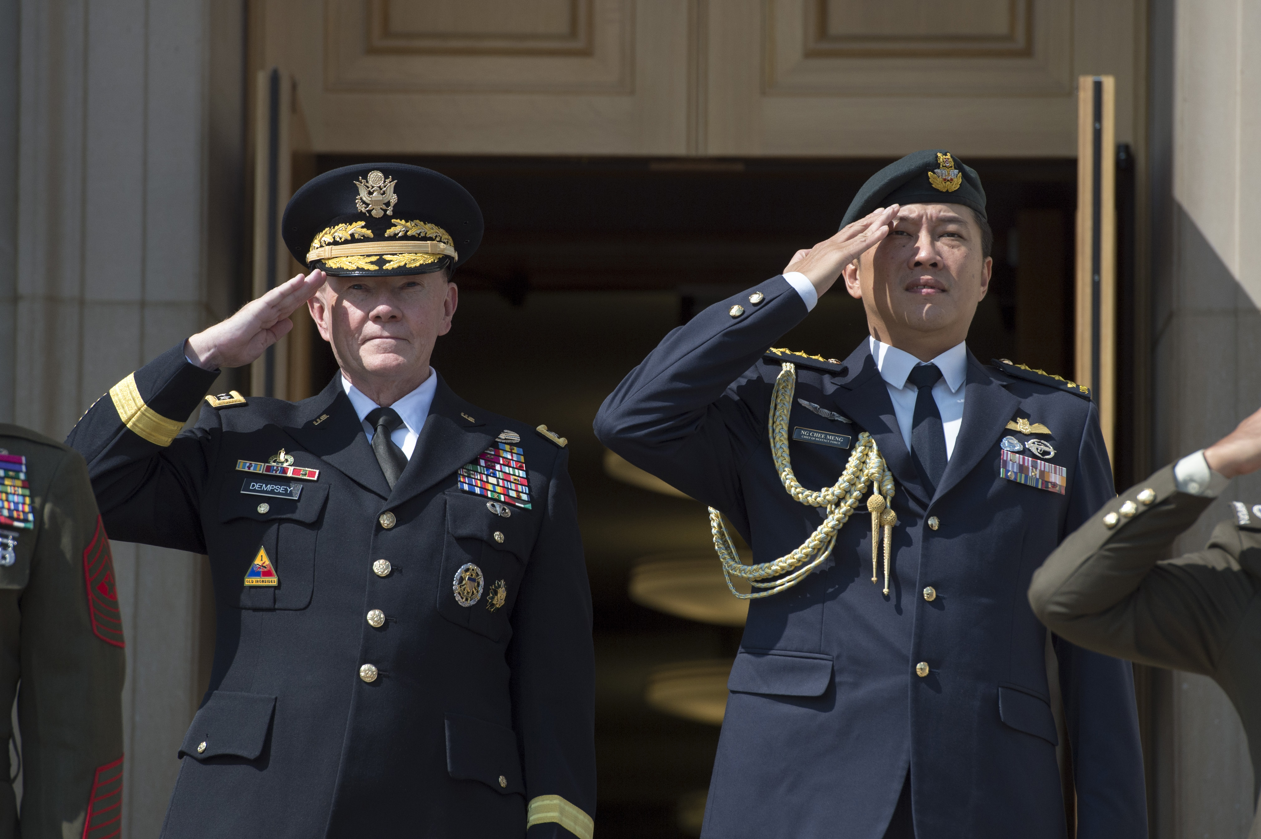 U.S. Army Gen. Martin E. Dempsey, chairman of the Joint Chiefs of Staff, and Singaporean Chief of Defense Force Lt. Gen. Ng Chee Meng salute during an honor cordon on the steps of the Pentagon, Aug. 21, 2014. The two leaders met to discuss issues of mutual importance.